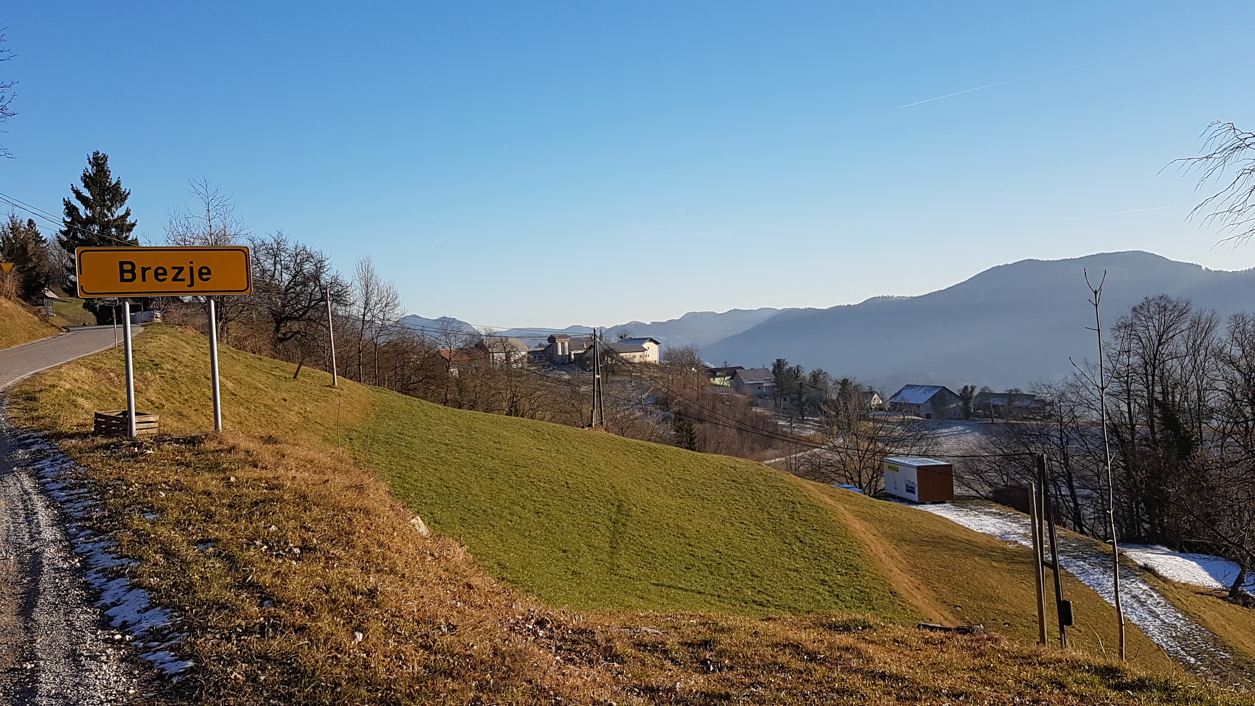 View on village of Brezje in central Slovenia from the (Trojane-)Šentgotard-Čemšenik(-Zagorje ob Savi) road.